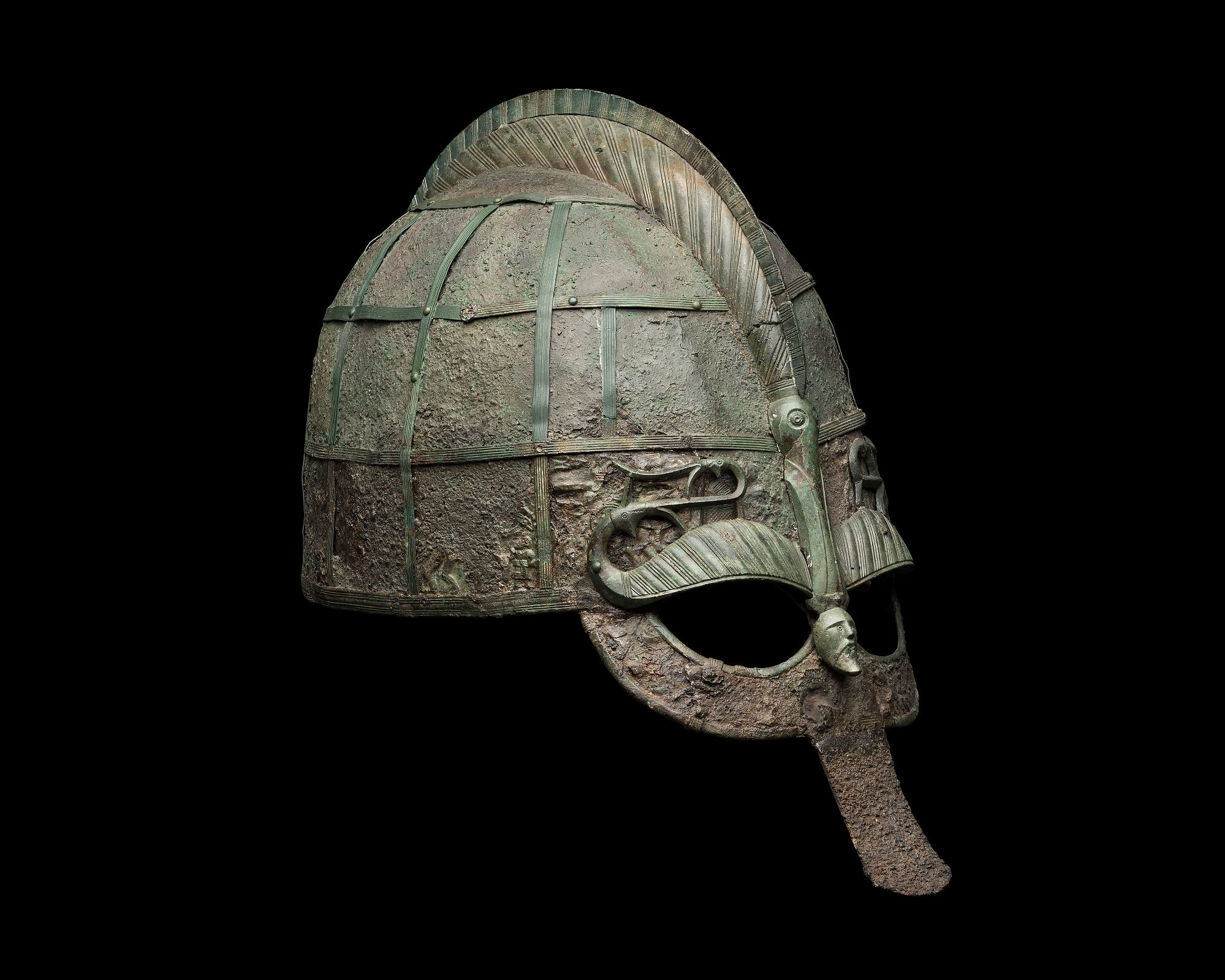 The Vendel I helmet in the Statens historiska museum